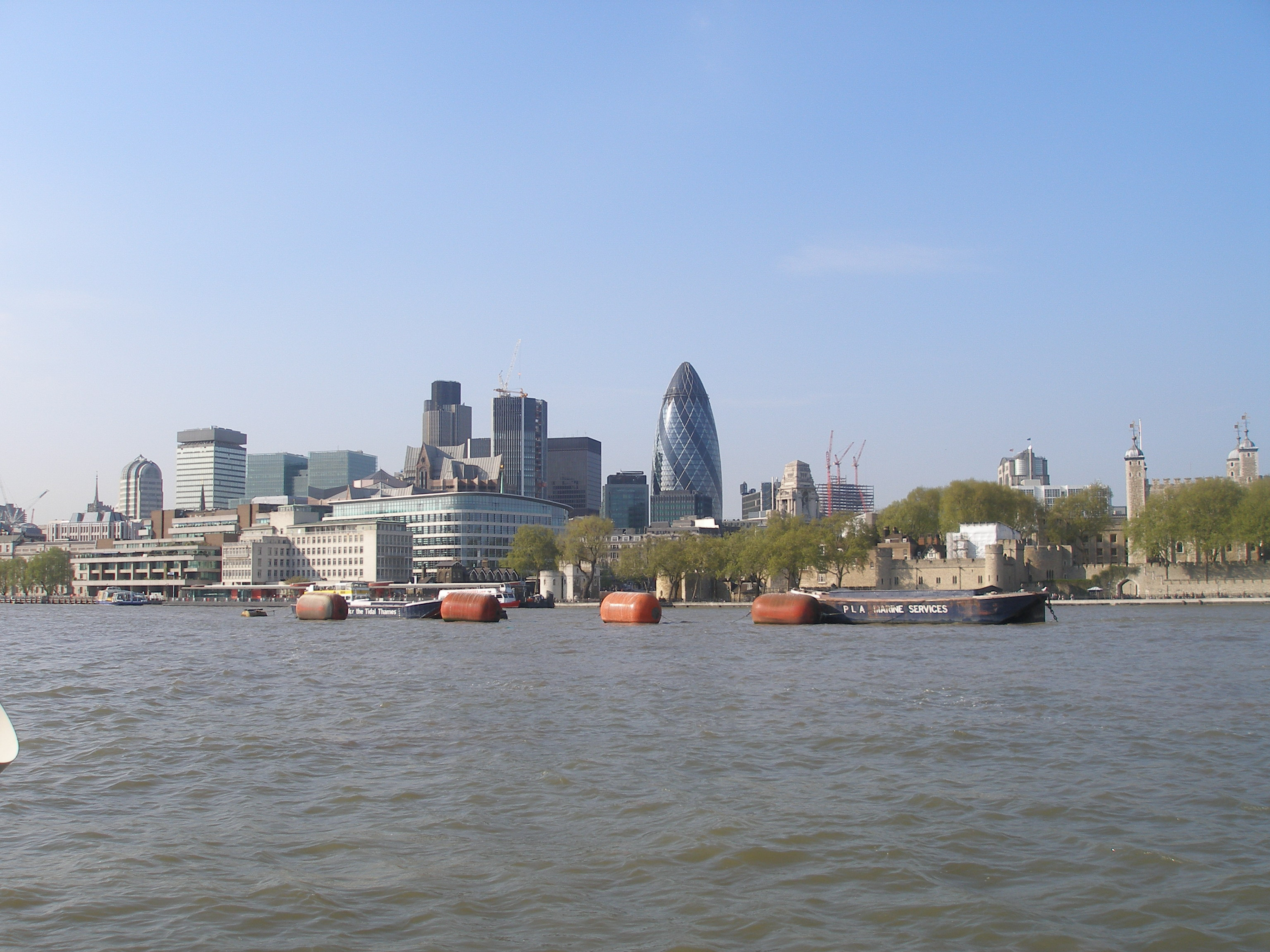 City of London from the Queen's Walk by the City Hall